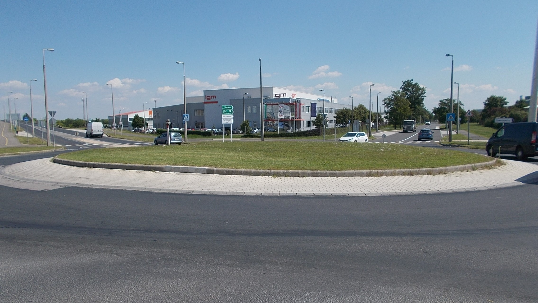 Hecsei road overpass bridge. IGM Robotics. - Roundabout at Hecsei and Szentiváni Rds cnr, Industrial Park, Győr, Győr-Moson-Sopron County, Hungary.